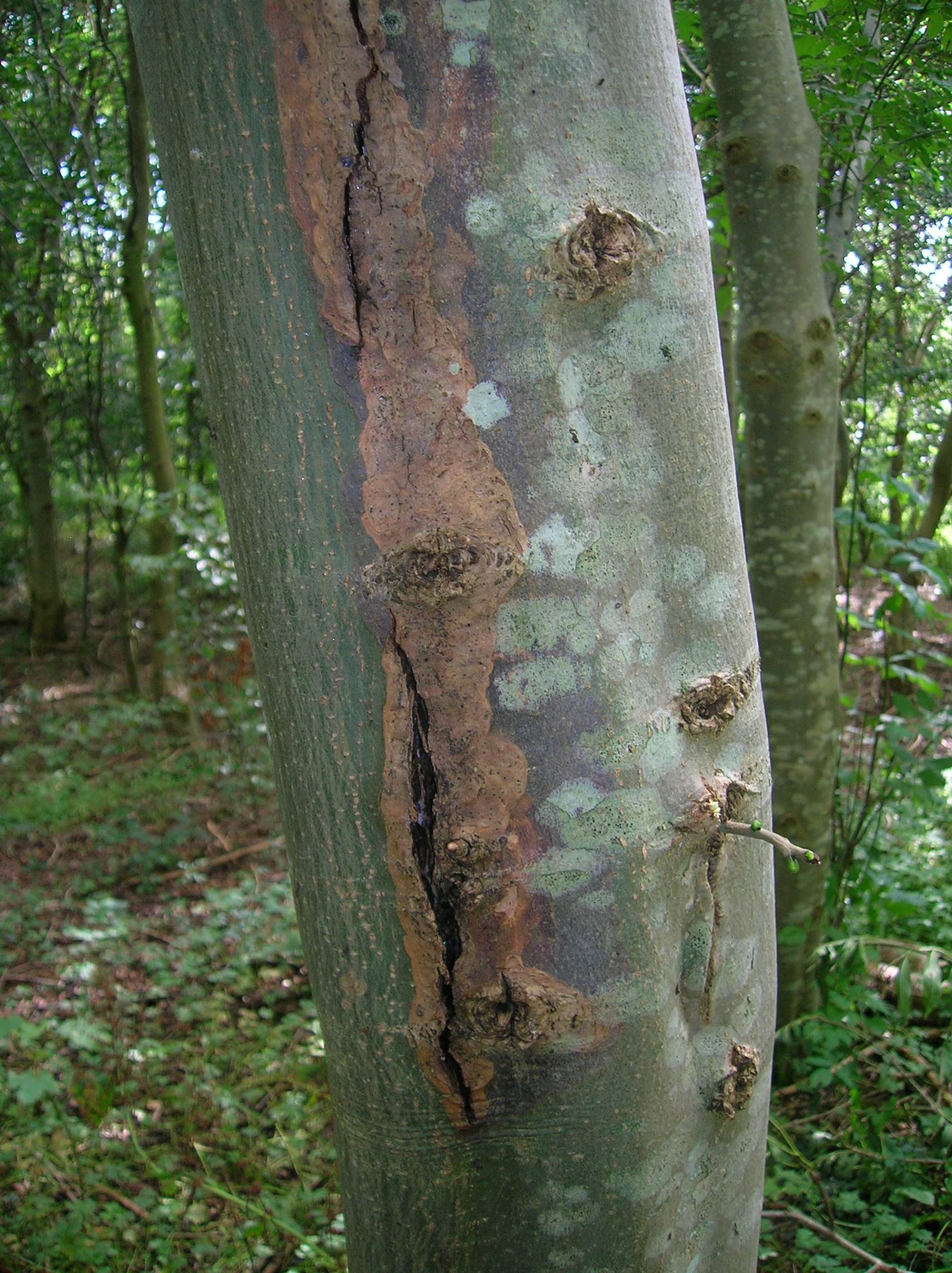 Sun Scald on Ash tree bark in Eglinton, North Ayrshire, Scotland.